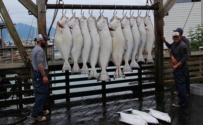 Fishermen in Seward, Alaska with a fresh catch of halibut. June 2015.